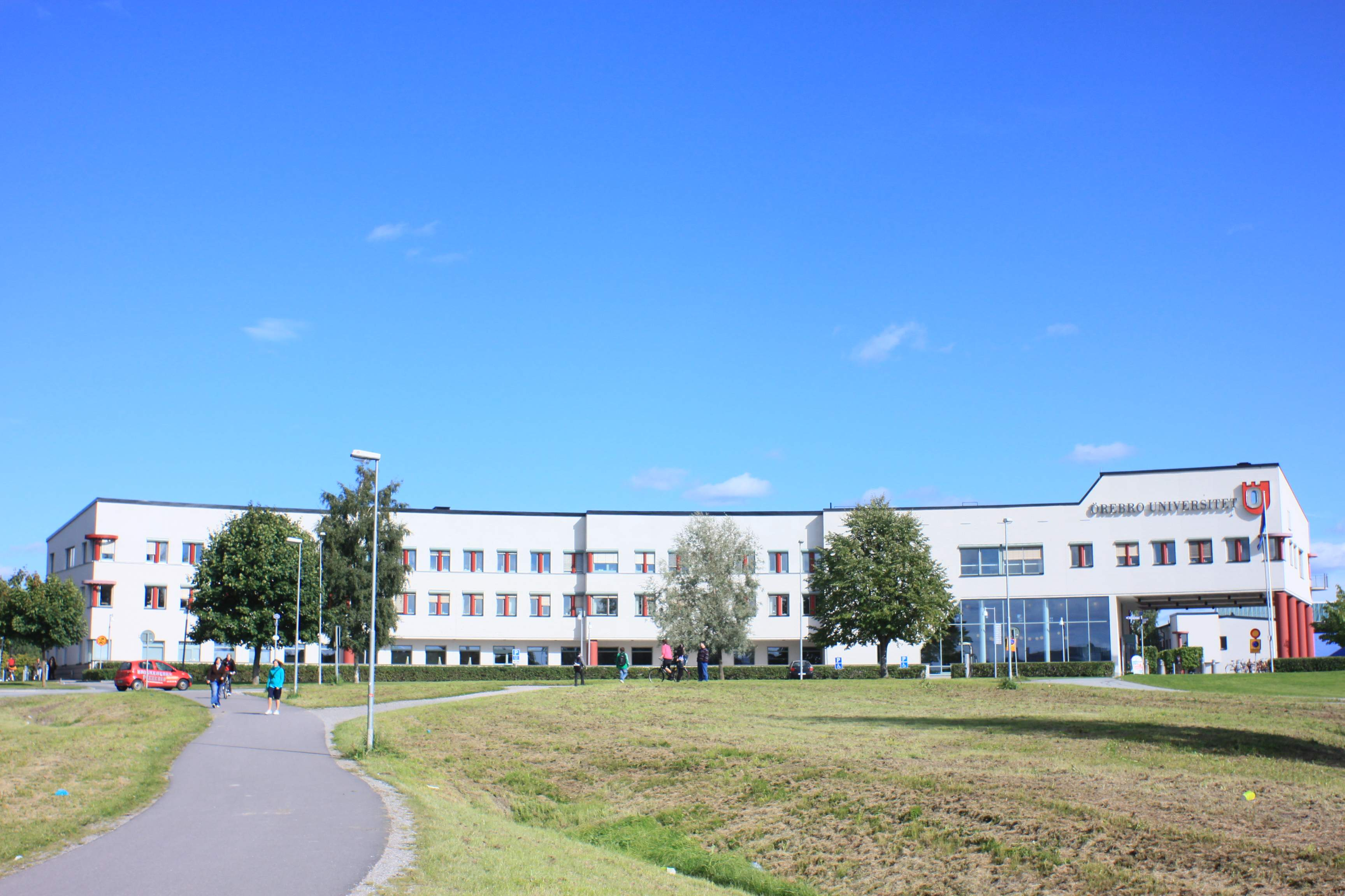 Örebro University Primary Building